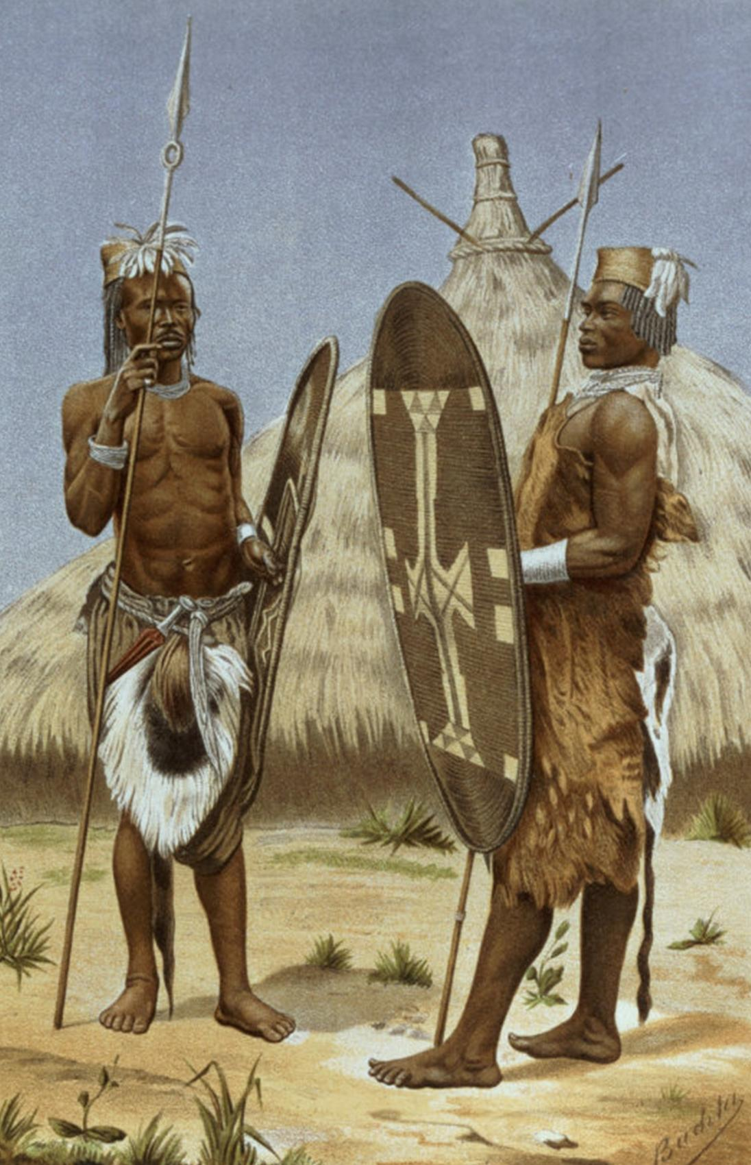 Nyam-Nyam Warriors, from The History of Mankind, Vol.III, by Prof. Friedrich Ratzel, 1898